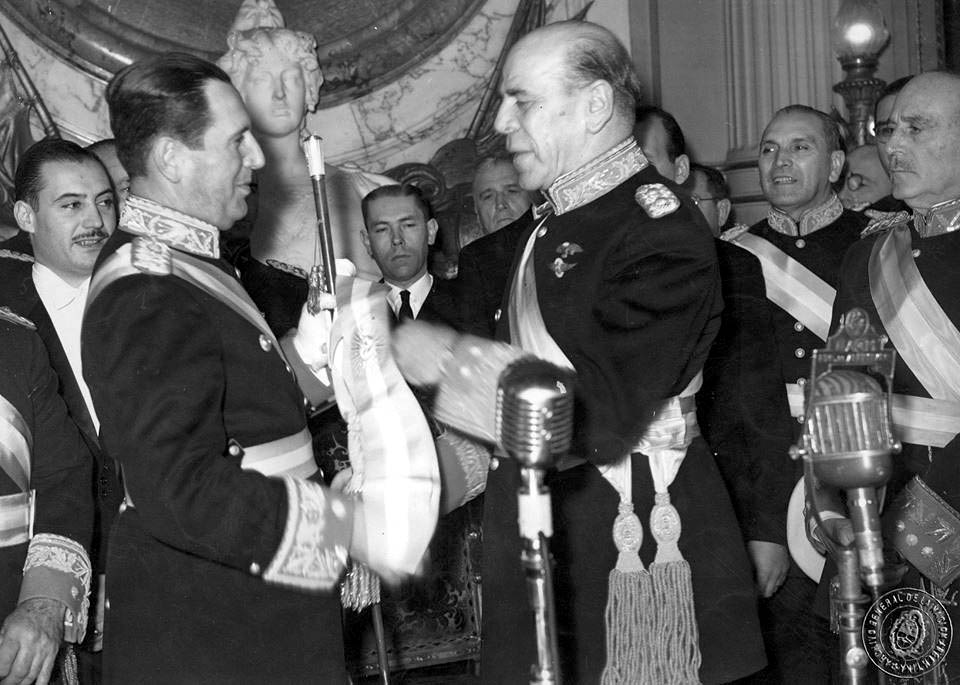 Argentine leader Juan D. Perón receiving the presidential sash and baton from his predecessor, Edelmiro Farrel.